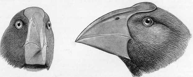 Genus NOTORNIS, general bill characteristics.